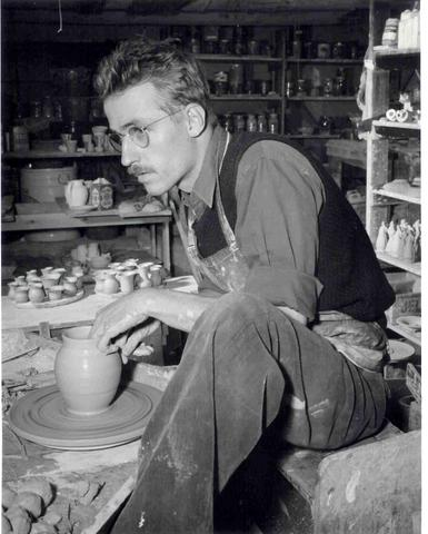 Van Briggle Master Potter Clem Hull throwing on the wheel at the Memorial Plant circa 1948